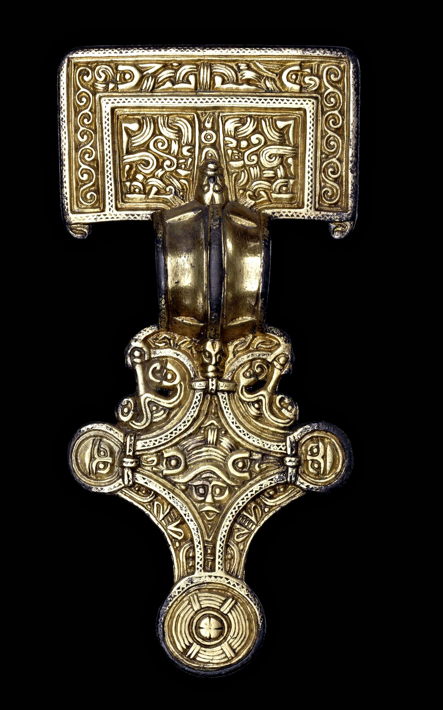 Silver-gilt square-headed brooch, Style I animal art, discovered in a female grave on the Isle of Wight